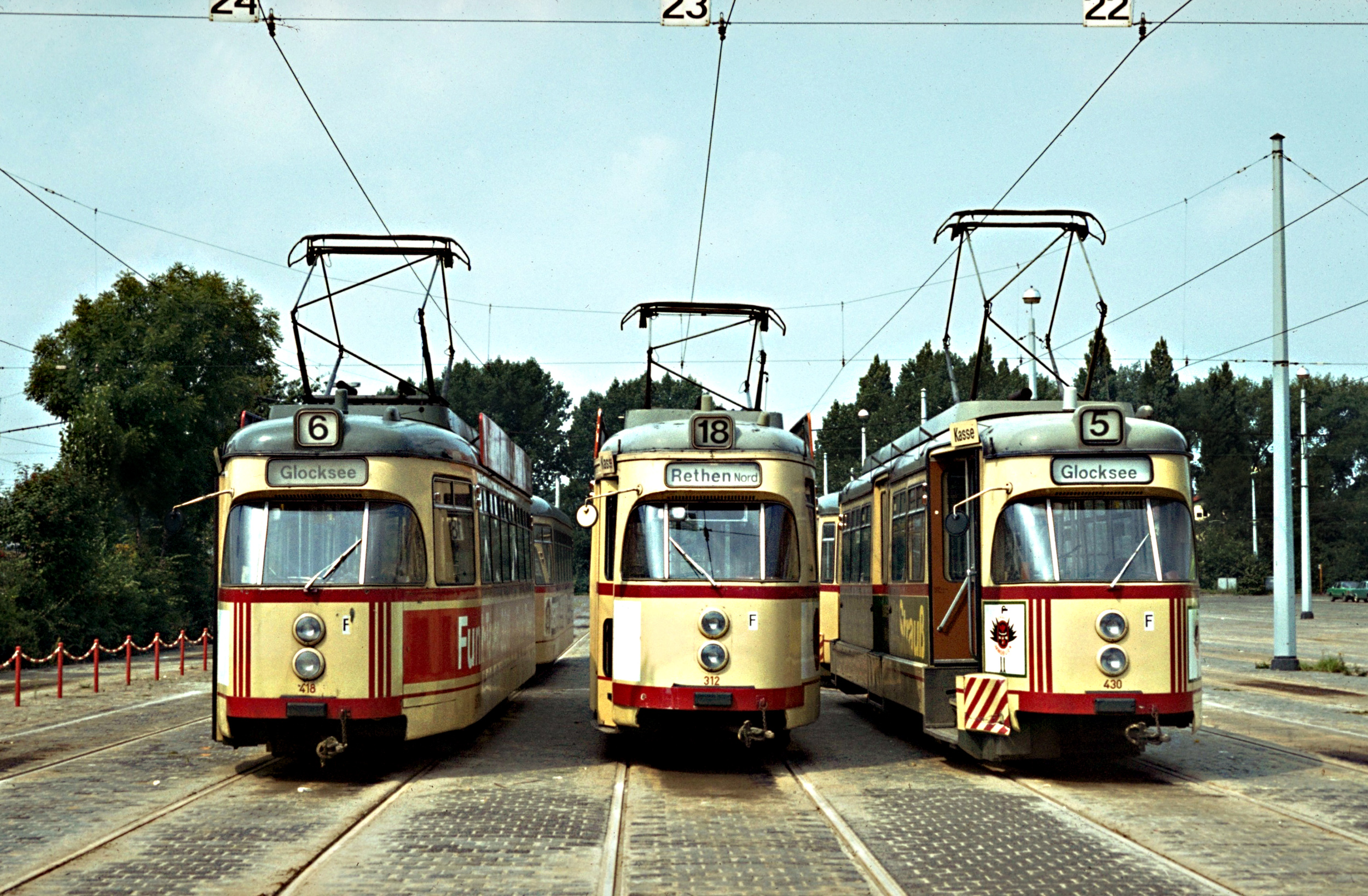 Tram in Hannover